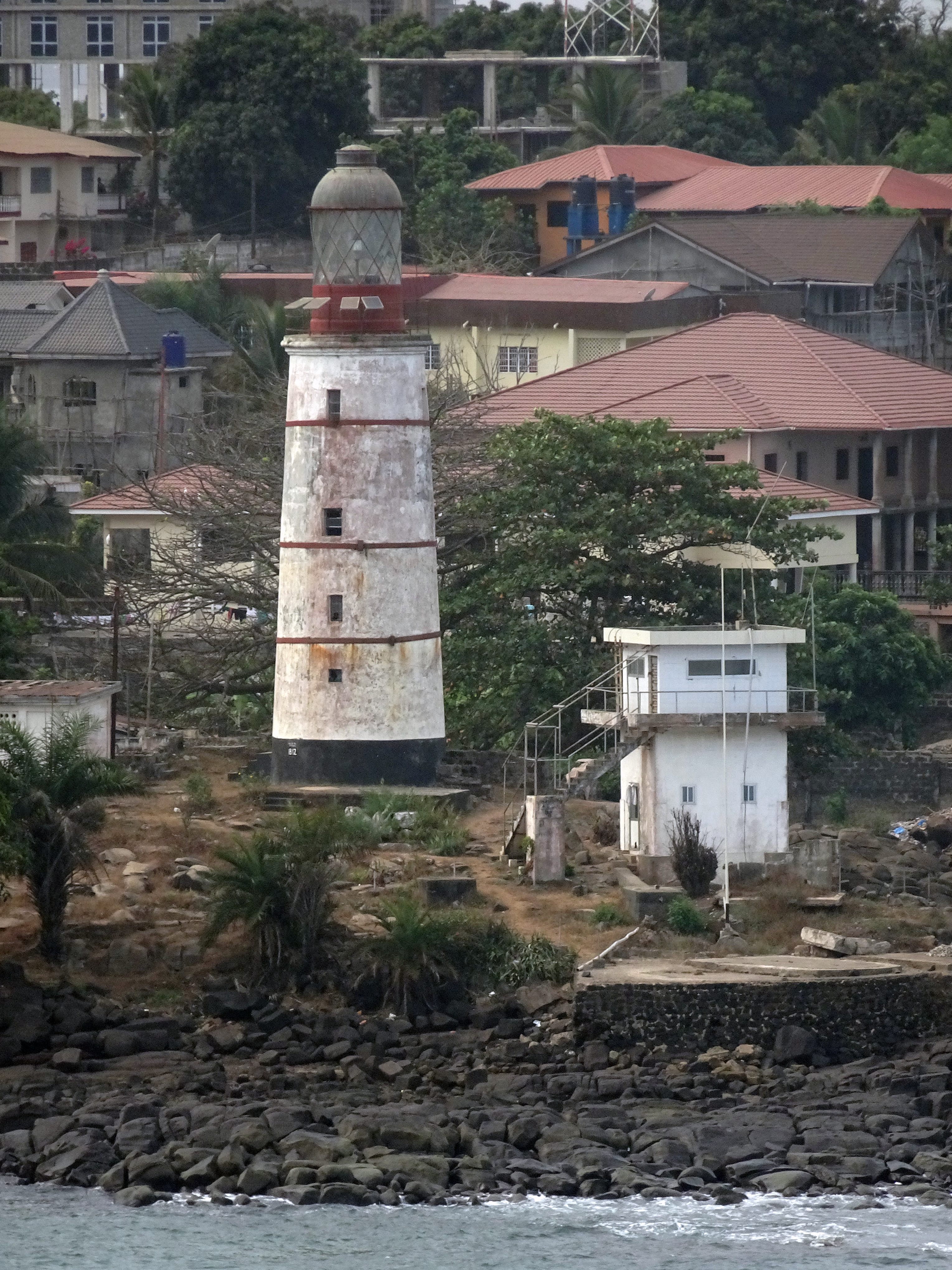 Lighthouse of the Cape Sierra Leone seen from the sea